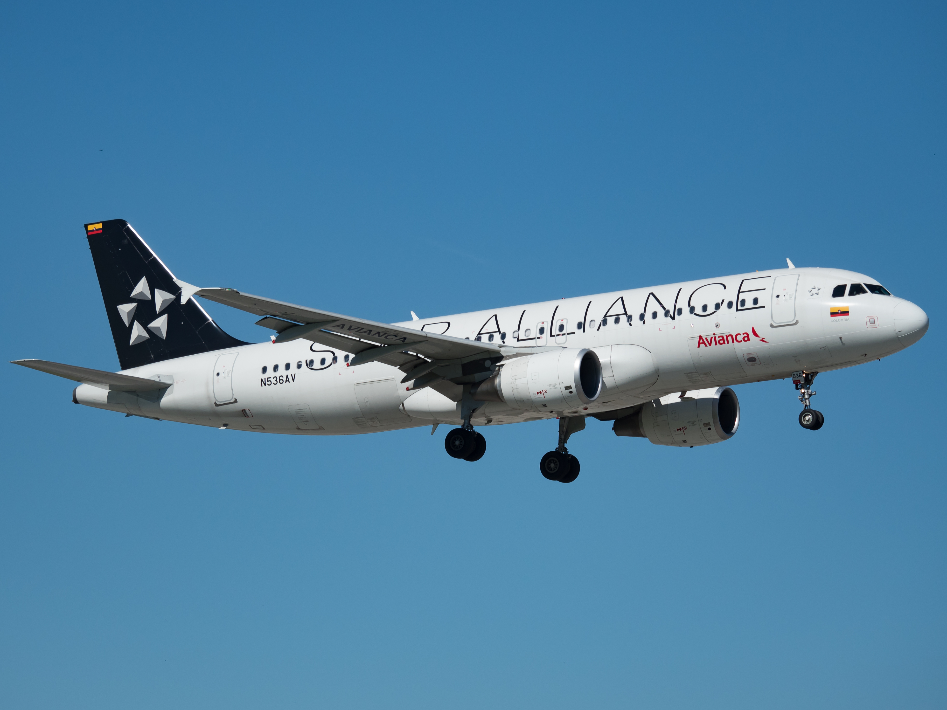 Avianca Airbus A320 at Miami International Airport